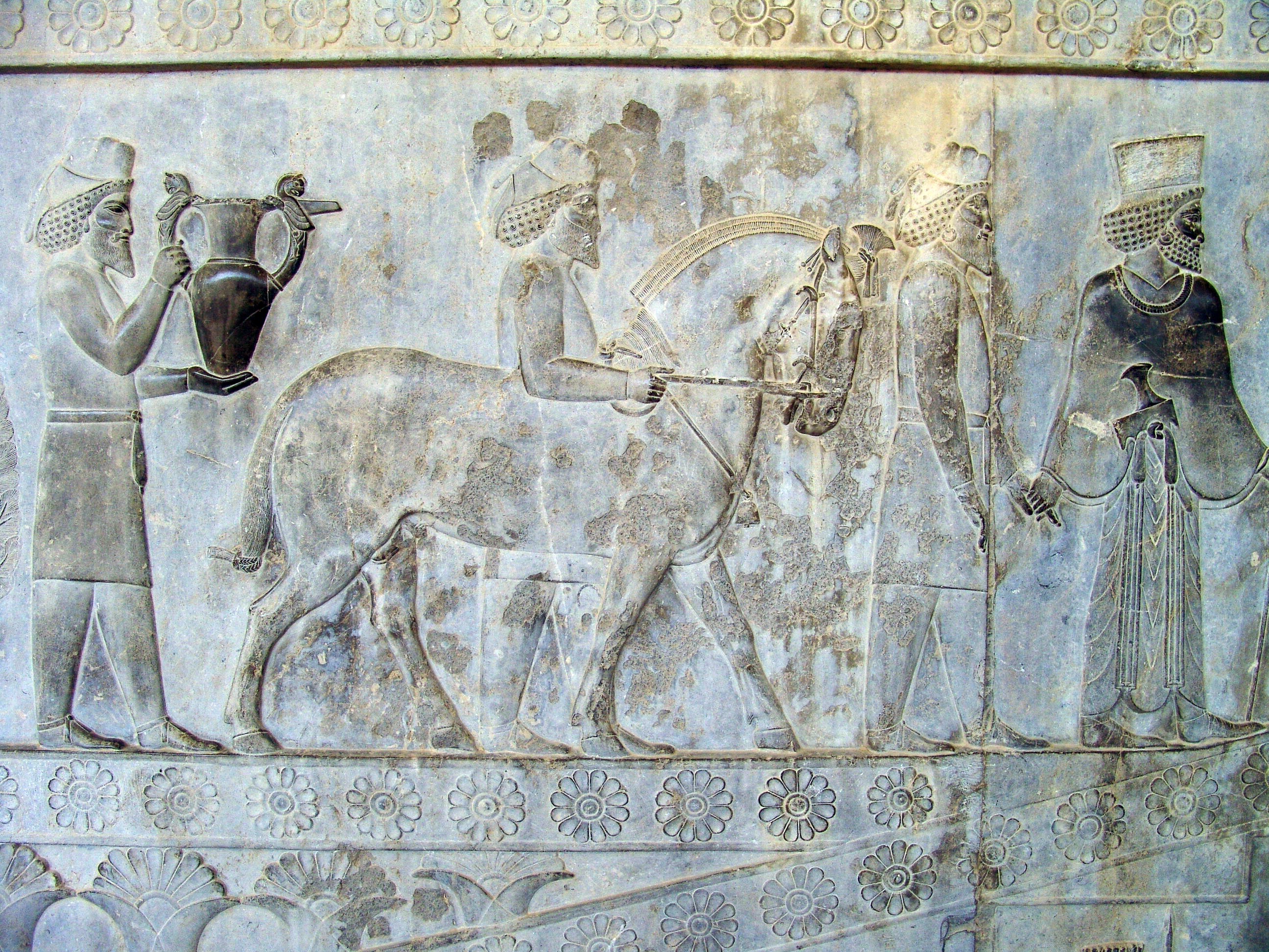 Persepolis